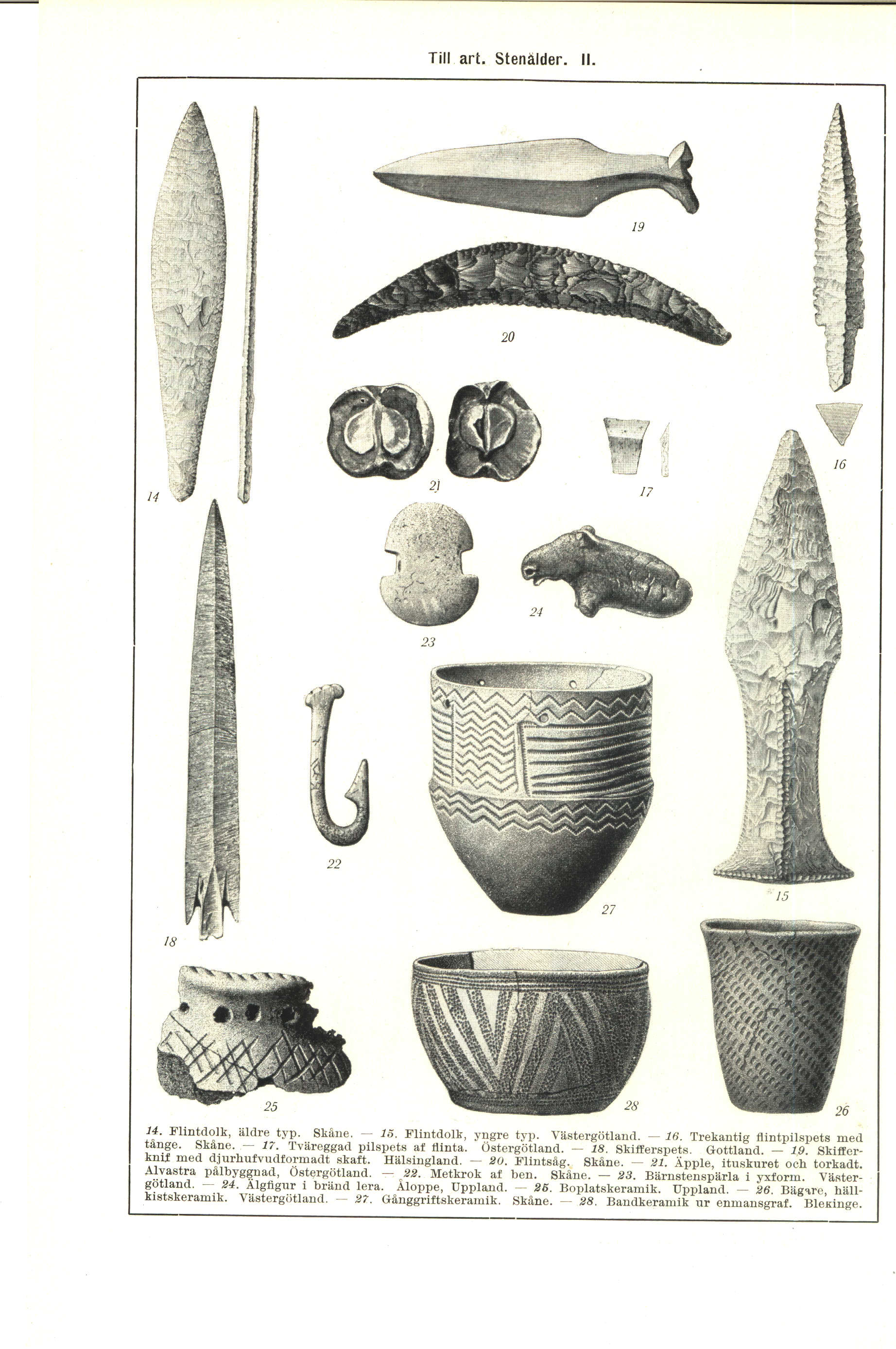 Follow wikilinks for croppings